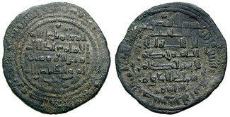 ISLAMIC DYNASTIES. Spanish Muluk al-Tawaif. 'Abbadids of Seville. al-Mutamid Muhammad. 1069-1091 AD. Billon Dirham (3.17 g). al-Andalus mint. The Kalimah Islamic legends. Album 404. Vives y Escudero 978; Miles 575. VF, sharp strike, dark brown and earthen patina. Scarce.